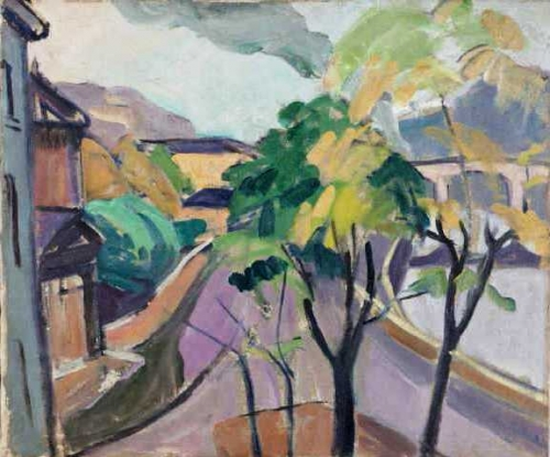 The Chapel Observatory (date unknown)